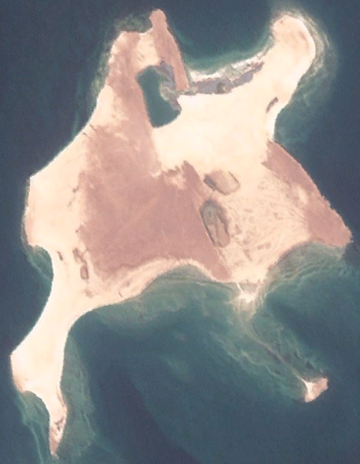 Satellite image of Harmil. Screenshot from NASA World Wind, OnEarth WMS global mosaic visual layer. Coordinates: worldwind://goto/world=Earth&lat=16.51069&lon=40.15560&alt=20054